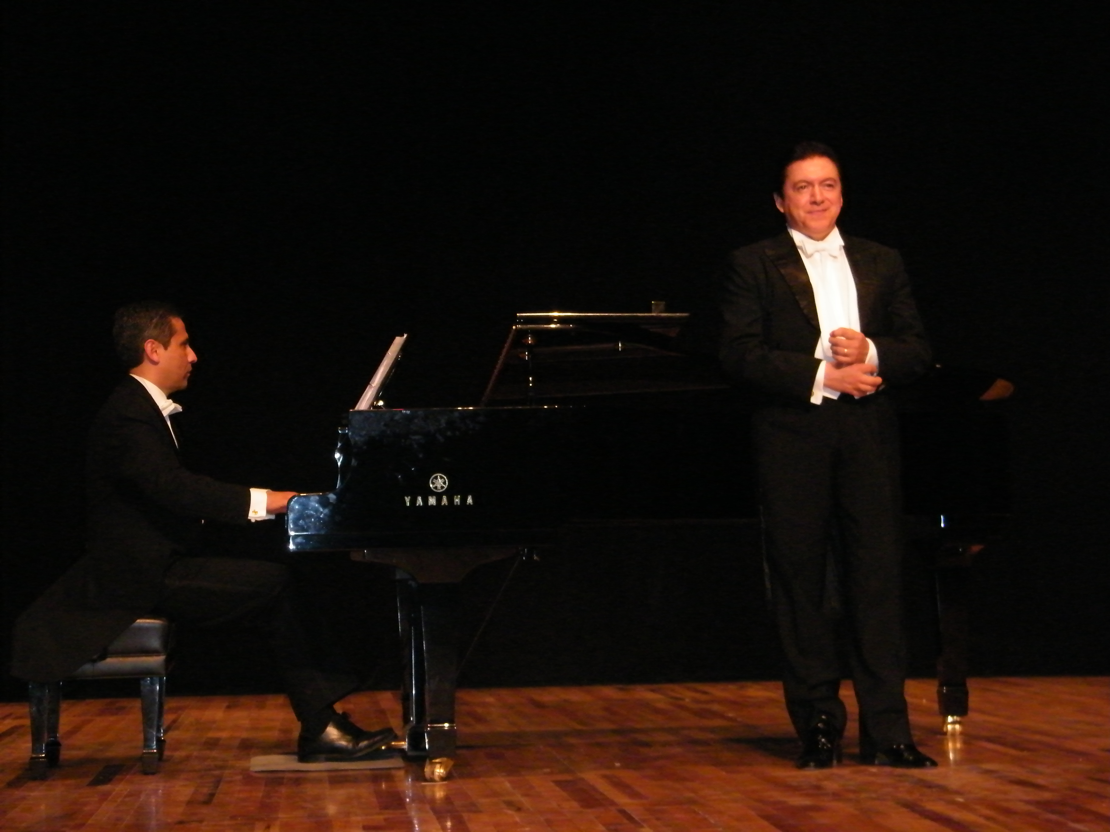 Tenor Francisco Araiza